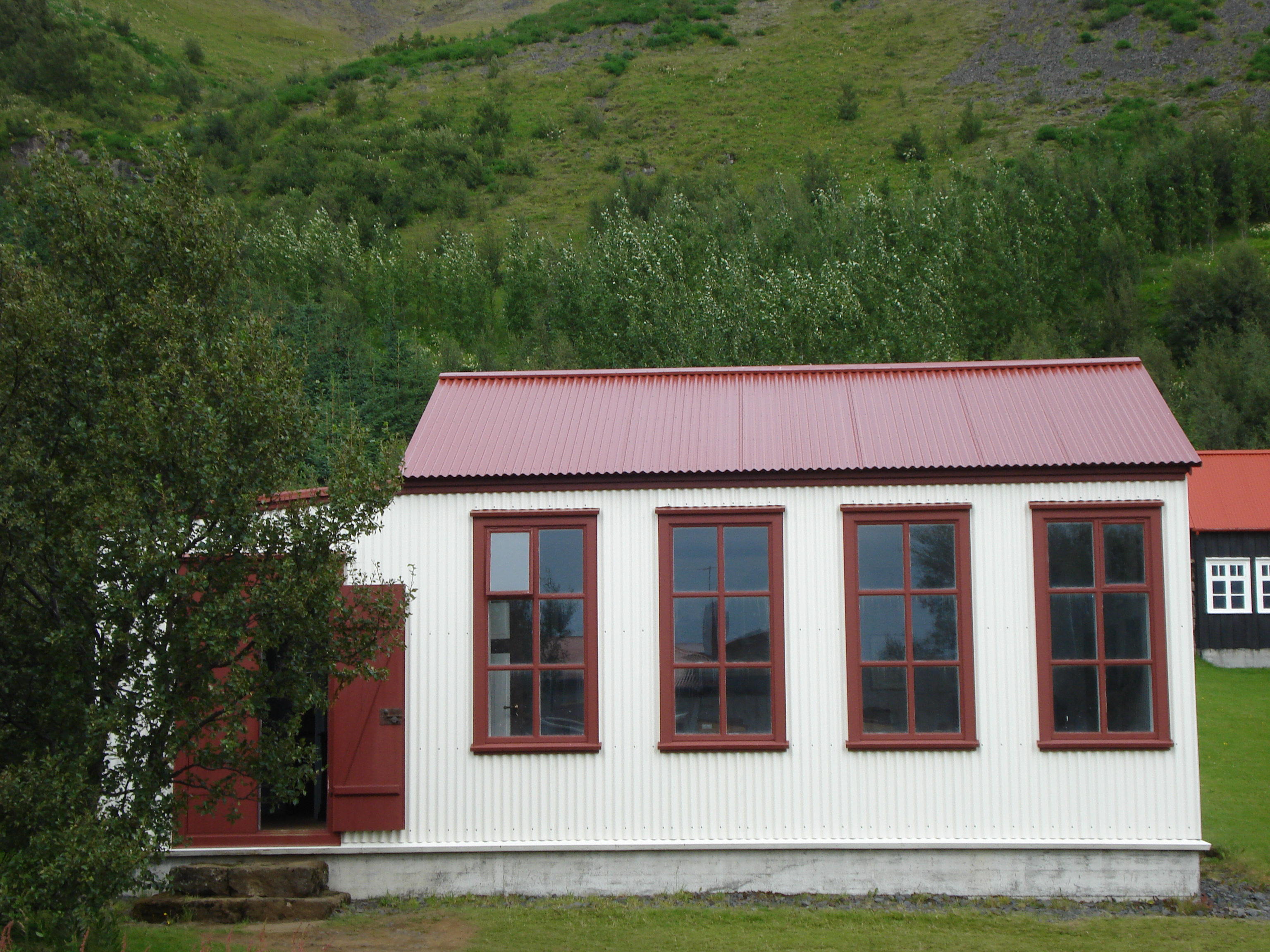 Schoolhouse from Litli-Havmmur, Mýrdalur, built 1901. Reconstructed at Skógar Museum 1999-2000.